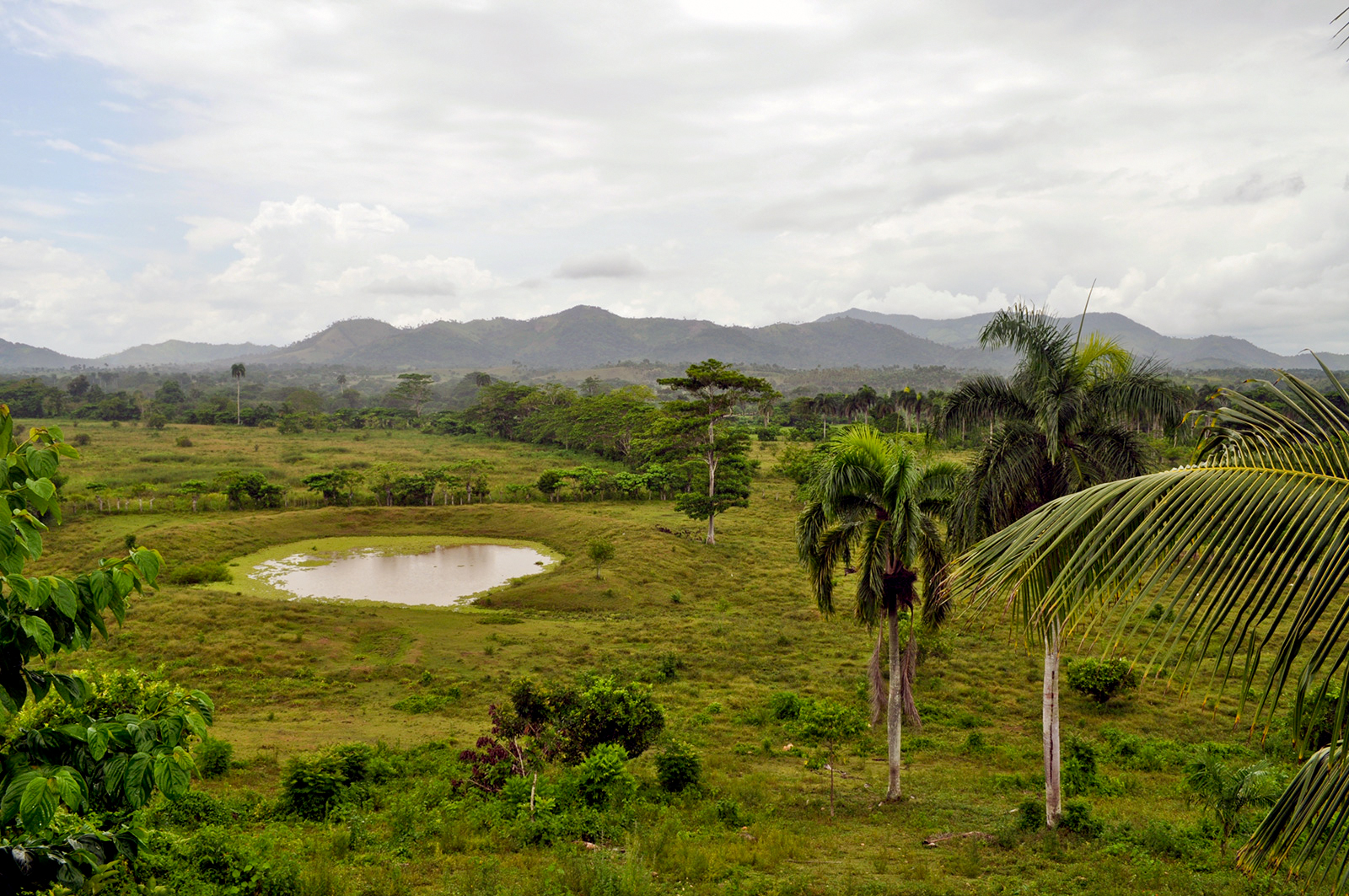 Picture taken in a rural area of the eastern part of the Dominican Republic